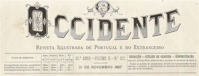 Front page title of the Portuguese illustrated magazine O Occidente.